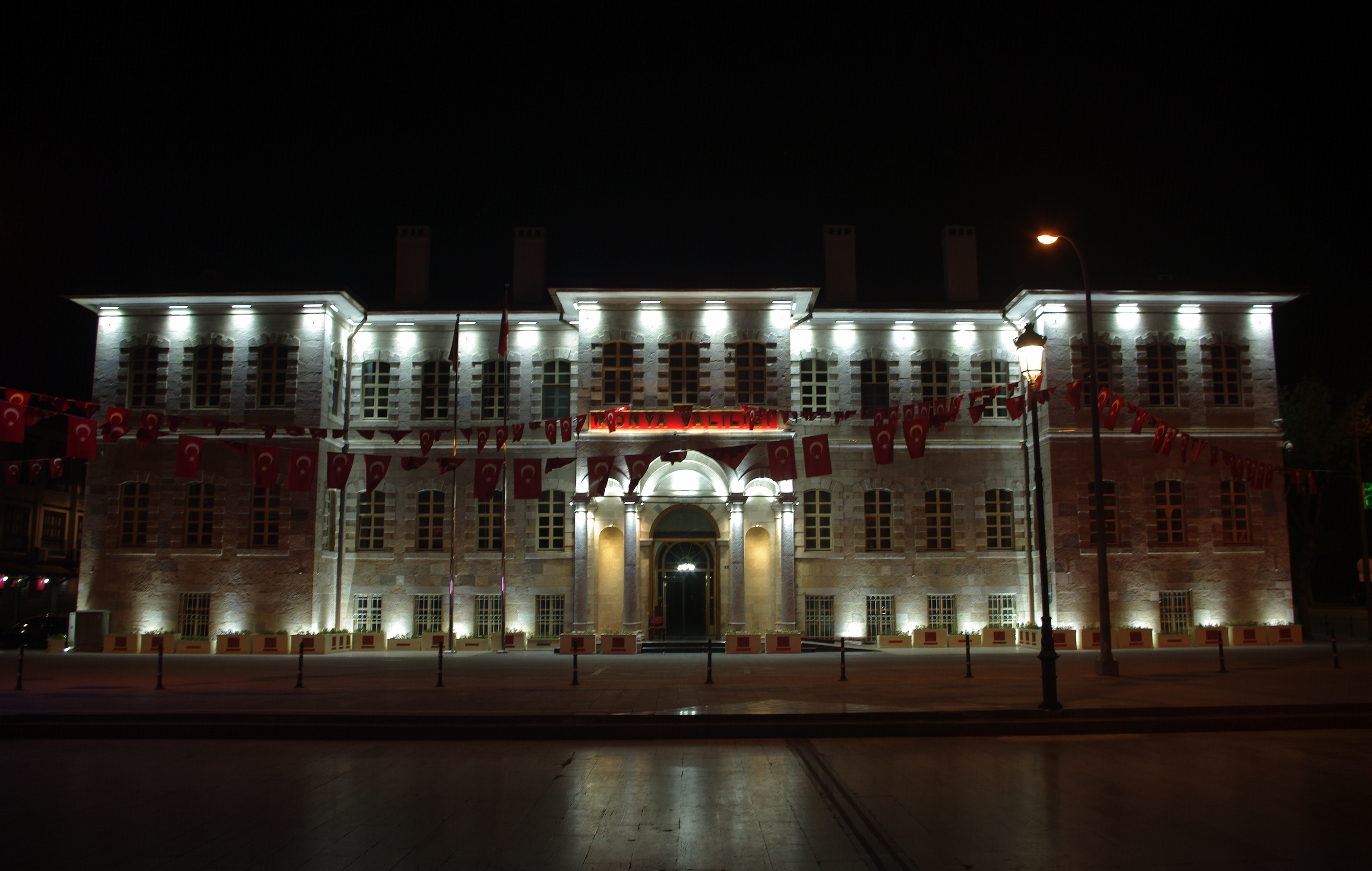 Night view of the Governorship Building of Konya Province, Turkey.